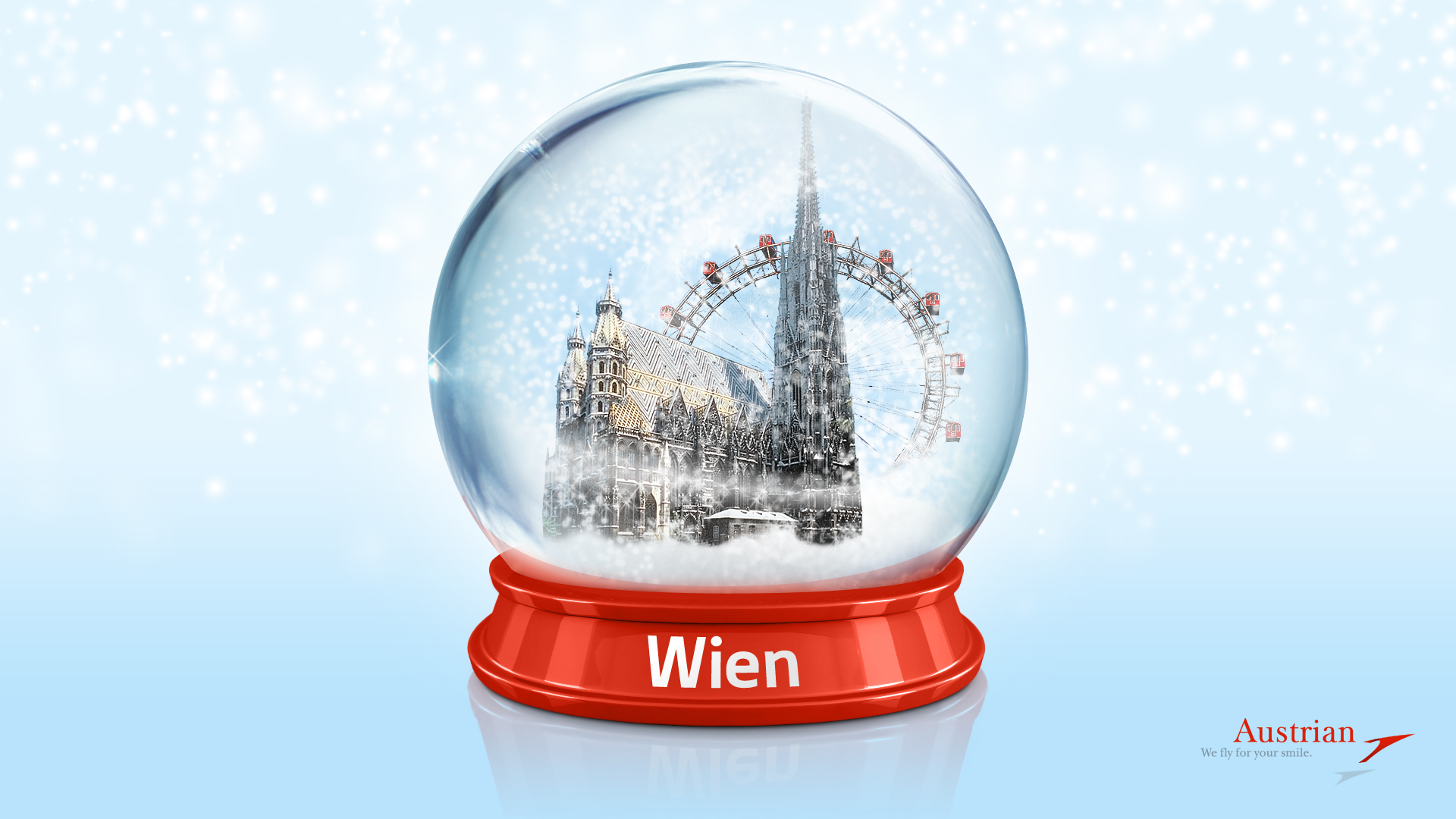 Vienna snowglobe by Austrian Airlines